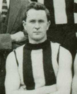 Photograph of Tom Hammond in 1922